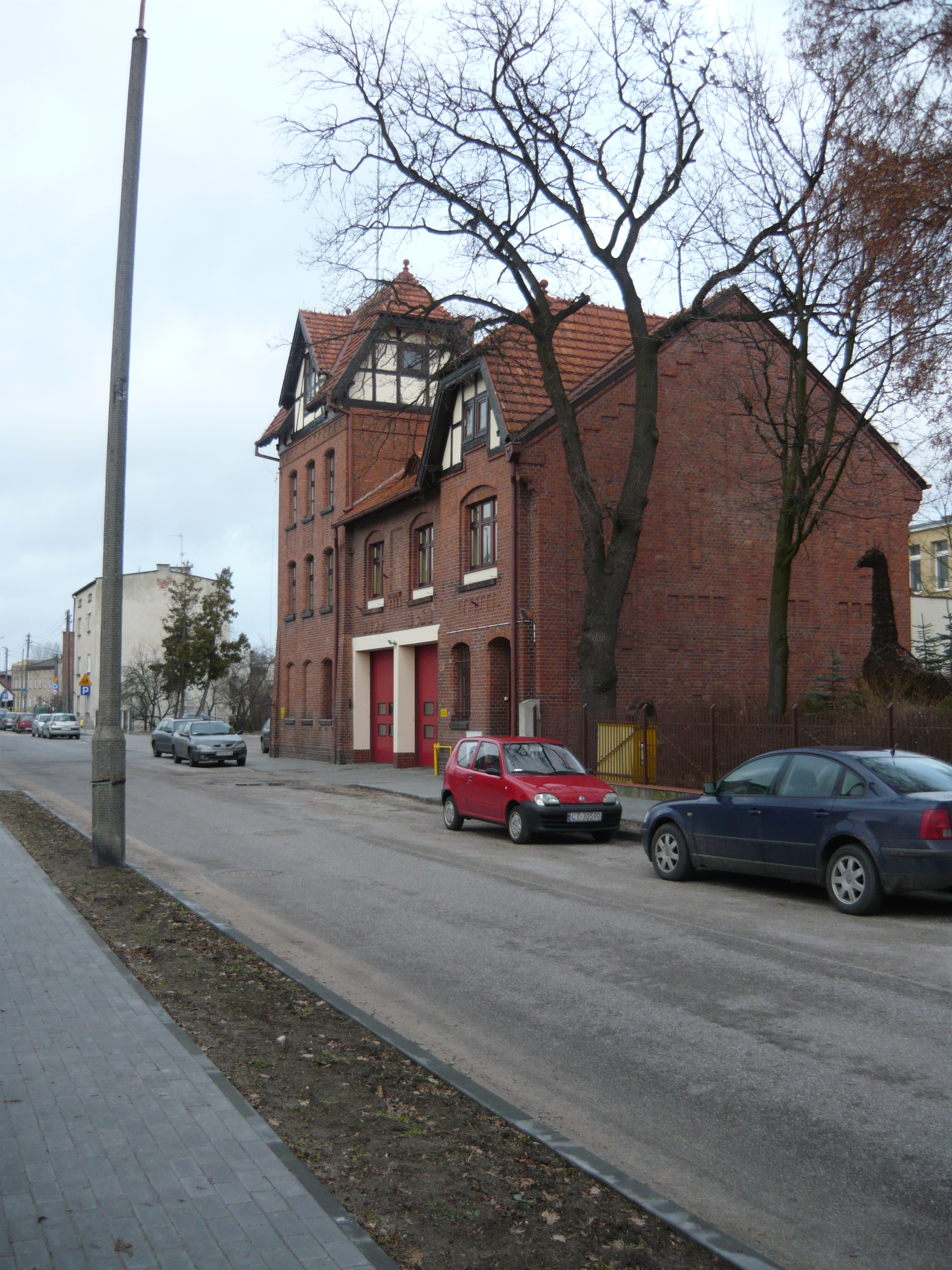 District (Municipal) Headquarters of the State Fire Service in Torun unit No. 2.